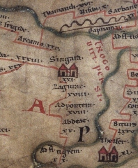 TABULA PEUTINGERIANA is the result of successive copies and overprints carried out at various times from one or several ancient originals. The oldest information probably goes back to before 79 AD (Pompeii), the newist to the 5th century (Constantinople). The Detail shows the mesopotamian town Singara (now Sinjar) and the inhabitants of Mount Sinjar, the "Trogoditi. persi." (Troglodytae persiae)